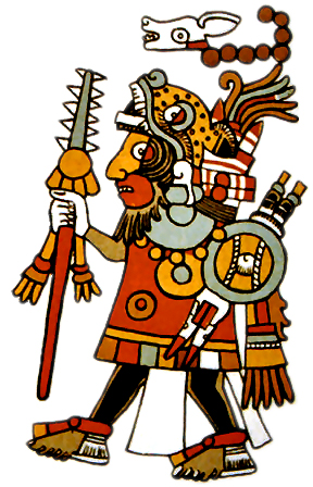 8-Deer-Jaguar Claw, Unifier of the Mixteca